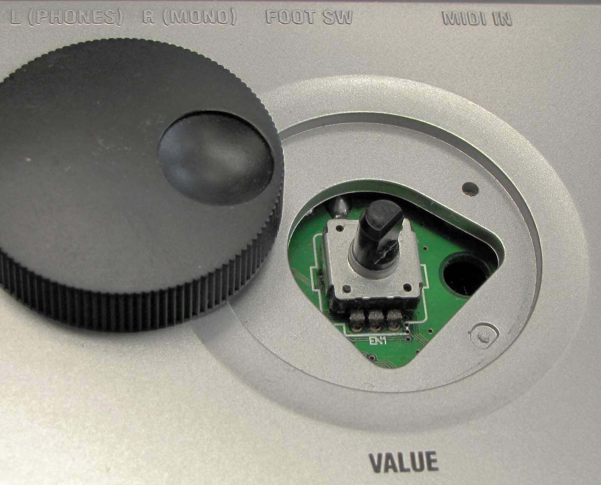 Rotary incremental encoder, built-in, deassembled knob lies aside